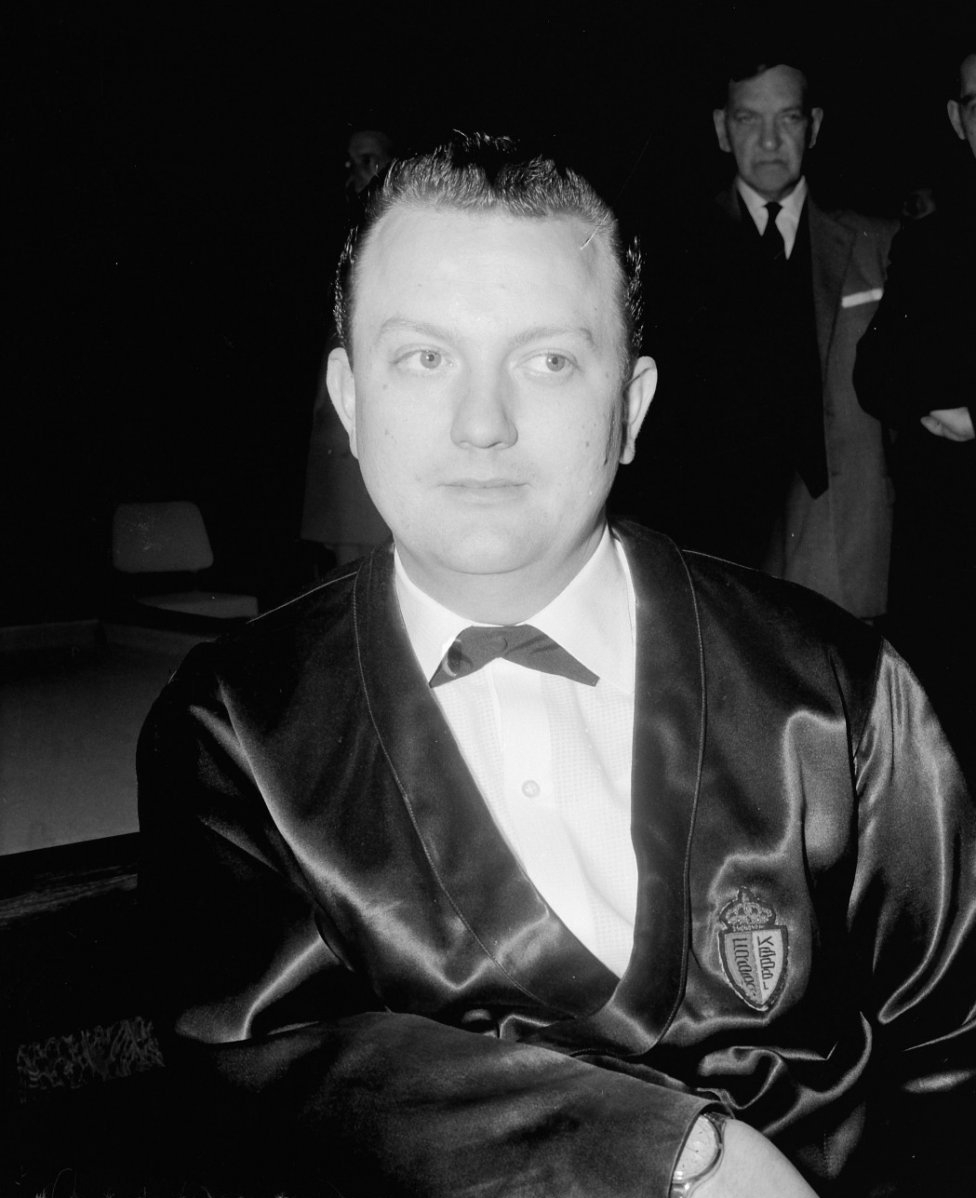 Raymond Steylaerts